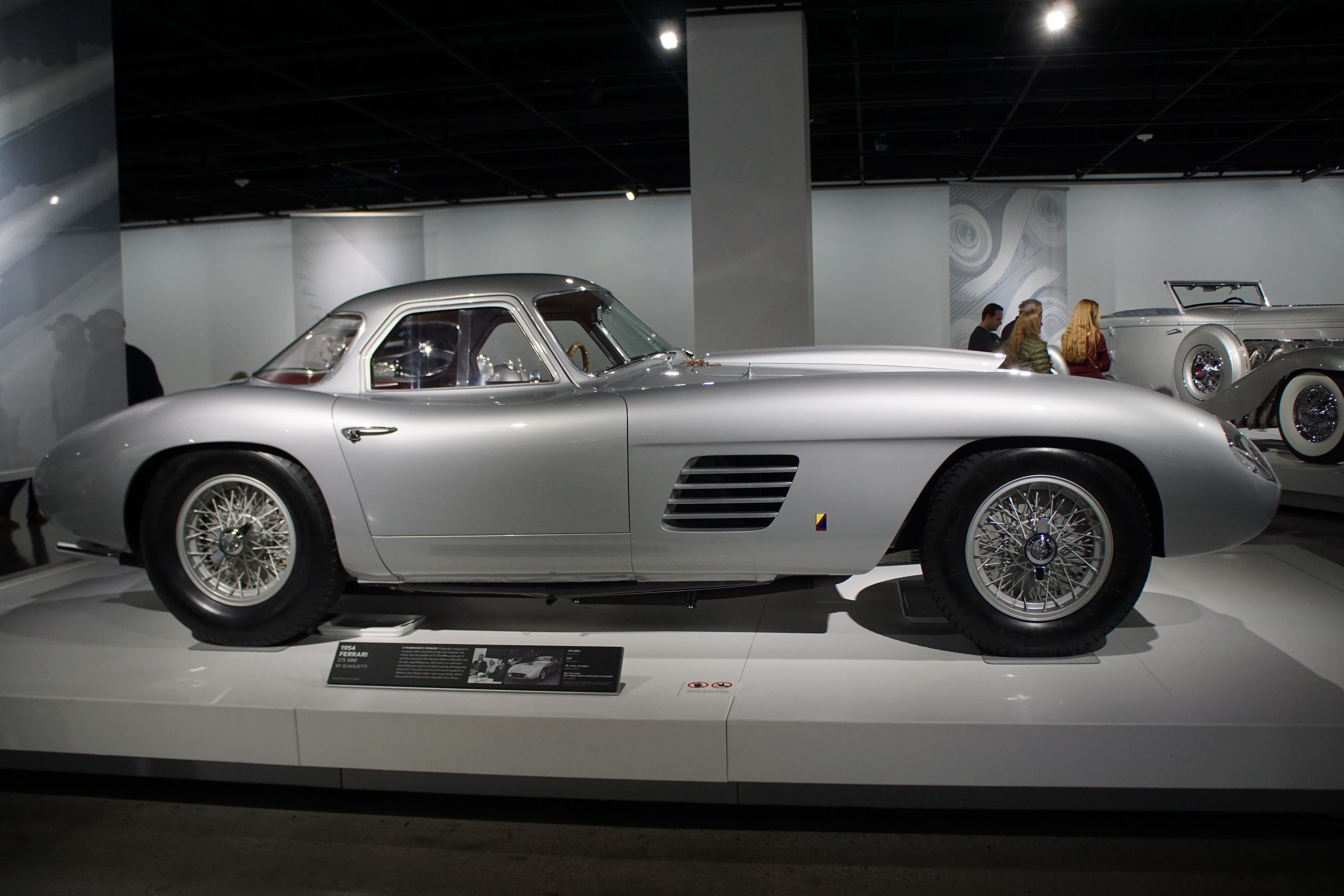 Petersen Automobile Museum Wilshire Blvd Los Angeles California